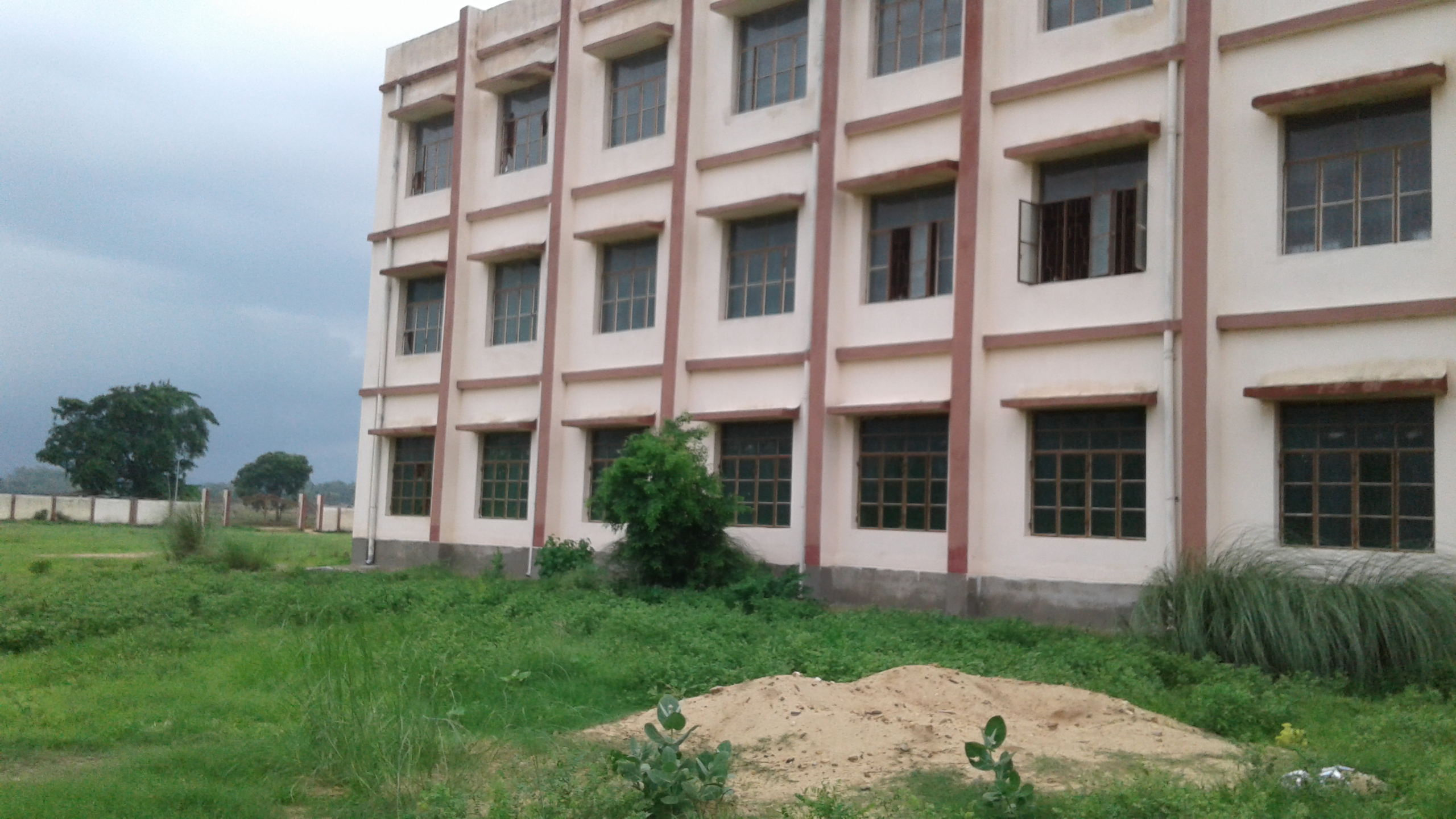 shershah engineering